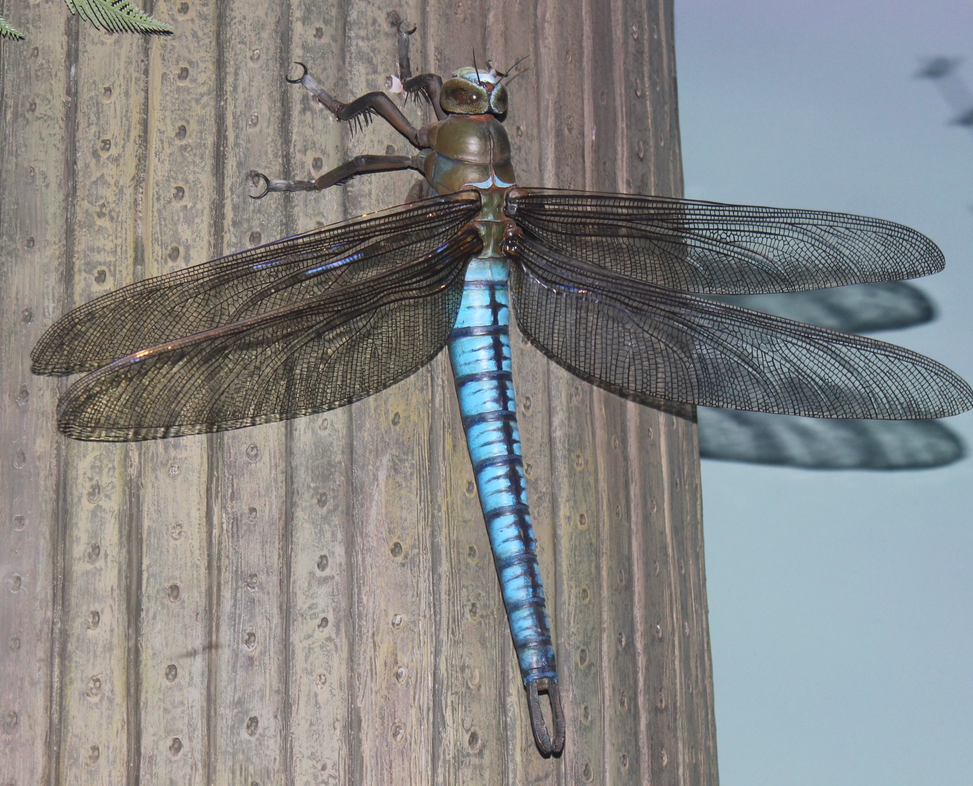 Extinct prehistoric animals. These are model and recreations. I can't give you the real thing because well, they're dead. — Meganeura, the extinct giant dragonfly of the Carboniferous period